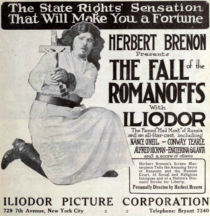 Ad for the American film The Fall of the Romanoffs (1917) with Iliodor, on page 2 of the June 30, 1917 Exhibitors Herald.